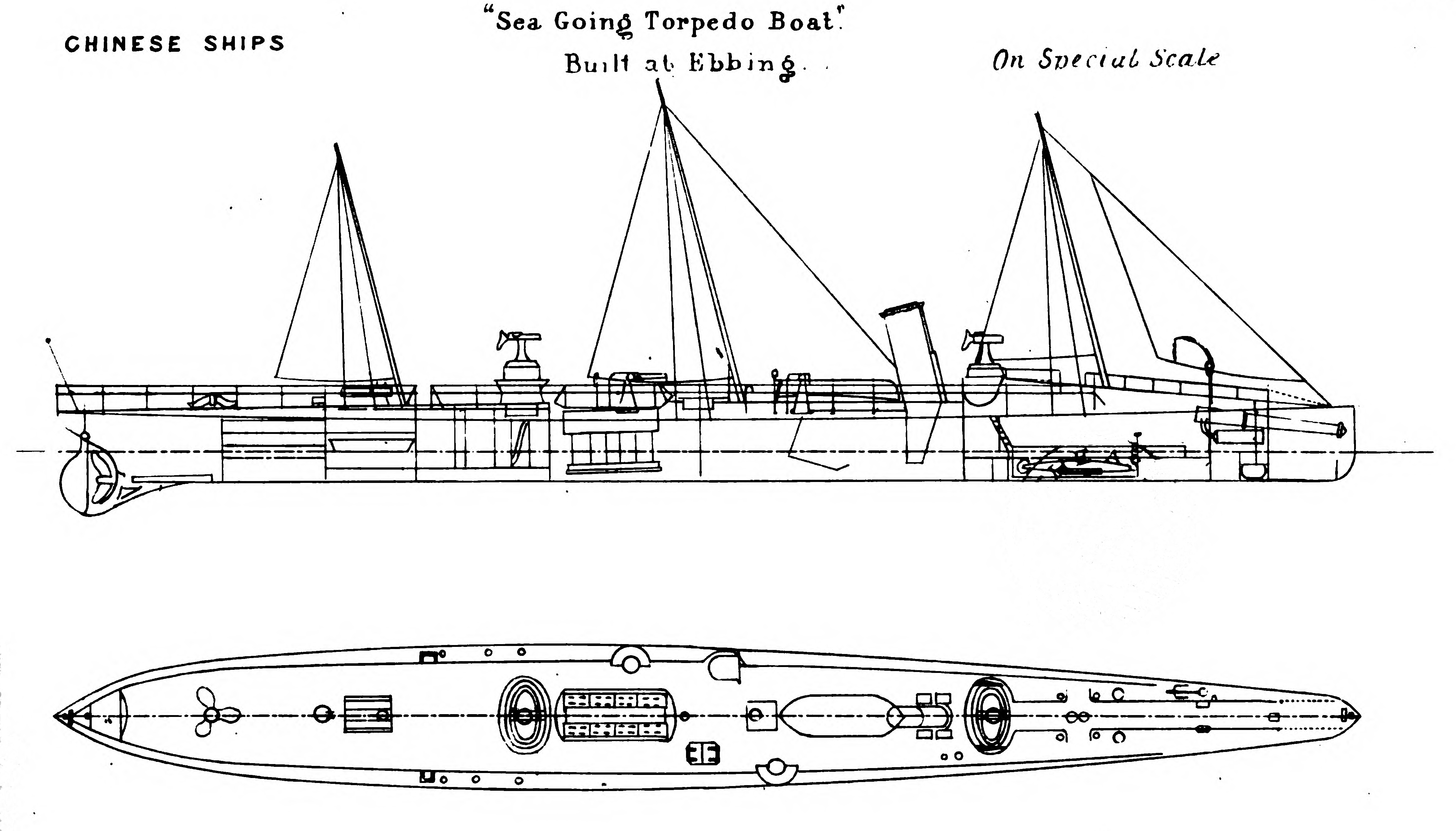 The Naval Annual of 1887 contained this drawing of the Chinese torpedo boat Fulong, on Plate 62.